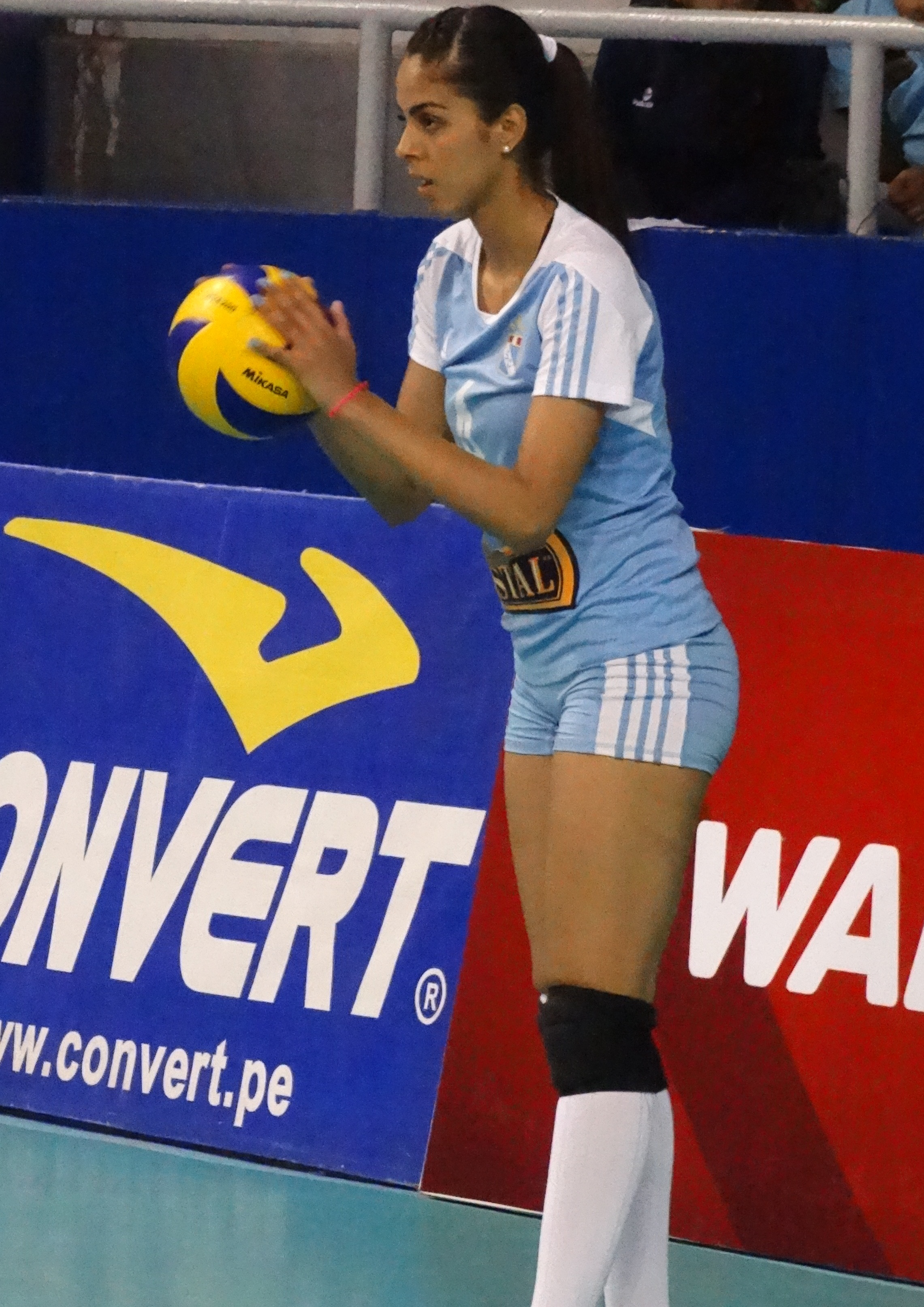 Peruvian volleyball player Keith Meneses